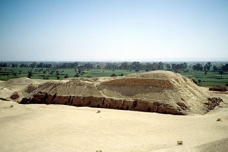 Mastaba 17, Meidum, Egypt